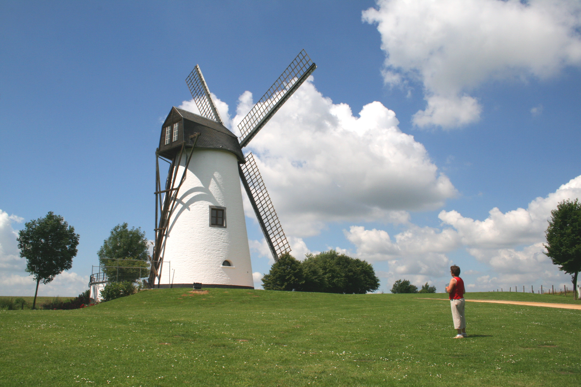 Opprebais, Belgium, the windmill (1850).